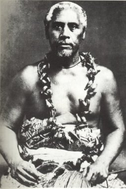 Tupua Tamasese Lealofi I (1830-1891).